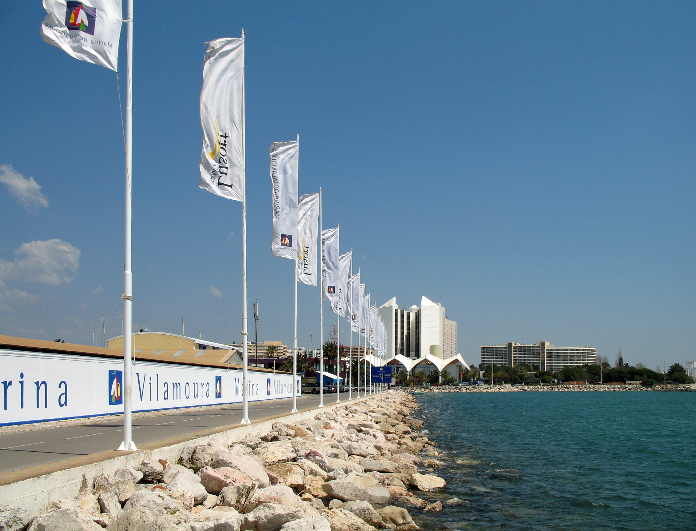 Vilamoura (Algarve, Portugal): marina